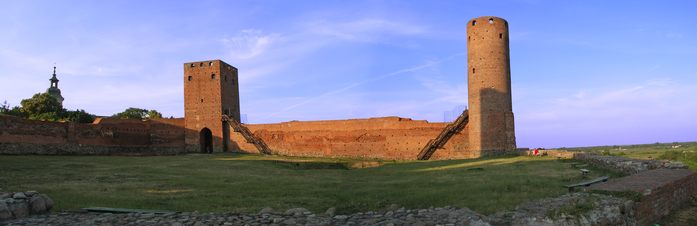 Masovian Princes Czersk Castle